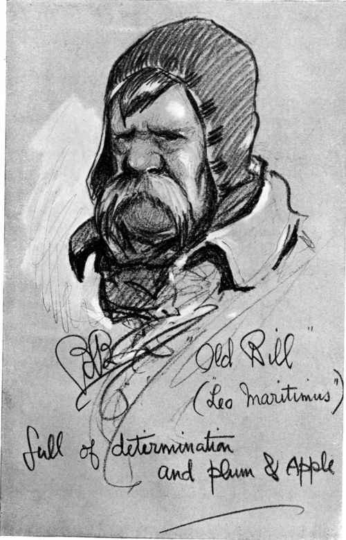 "Old Bill" by Bruce Bairnsfather: public domain in the USA (orig. published 1916), image from Bullets & Billets, Project Gutenberg [1]